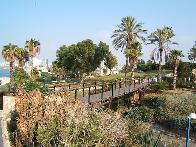 The brige in gan Hapisga in old Yaffo